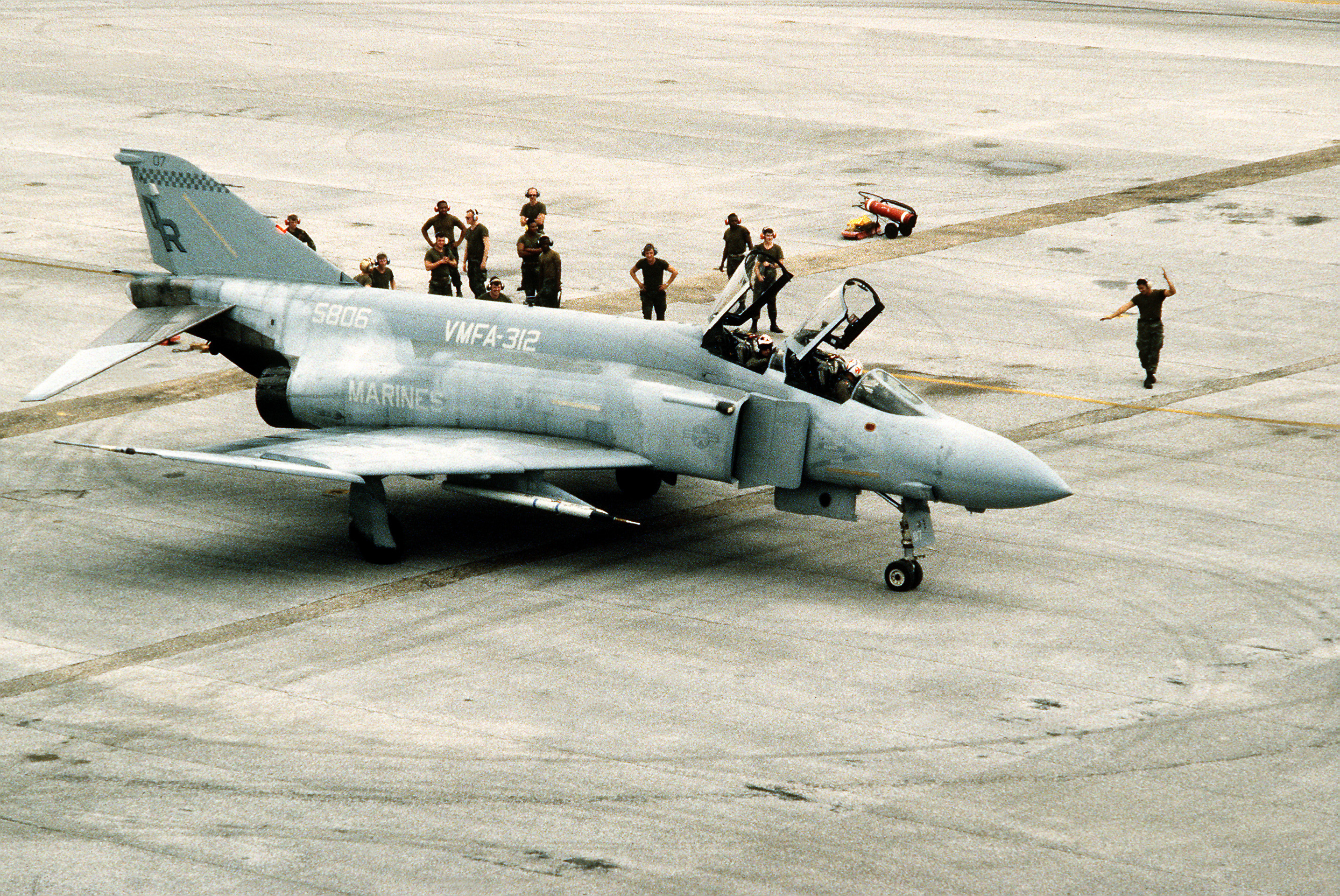 The flight crew from U.S. Marine Corps fighter attack squadron VMFA-312 Checkerboards watches as the pilot taxis the McDonnell Douglas F-4S Phantom II aircraft (BuNo 155806) along the runway during rapid response loading Exercise Agile Sword '86 at Naval Air Station Pensacola, Florida (USA), on 22 May 1986.